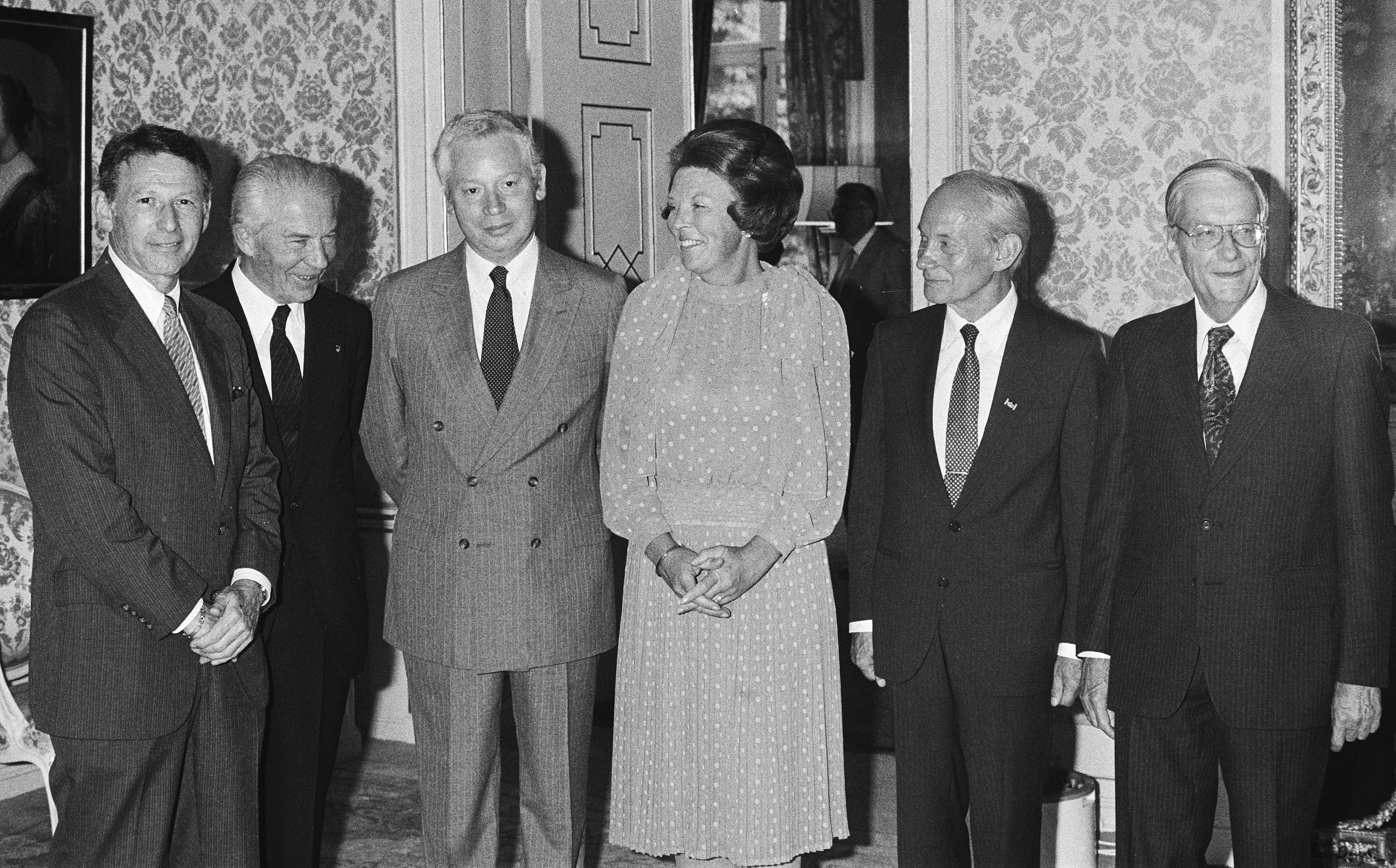 Queen Beatrix receives Nobel laureates: Paul Berg, Christian de Duve, Steven Weinberg, Queen Beatrix, Manfred Eigen, Nicolaas Bloembergen